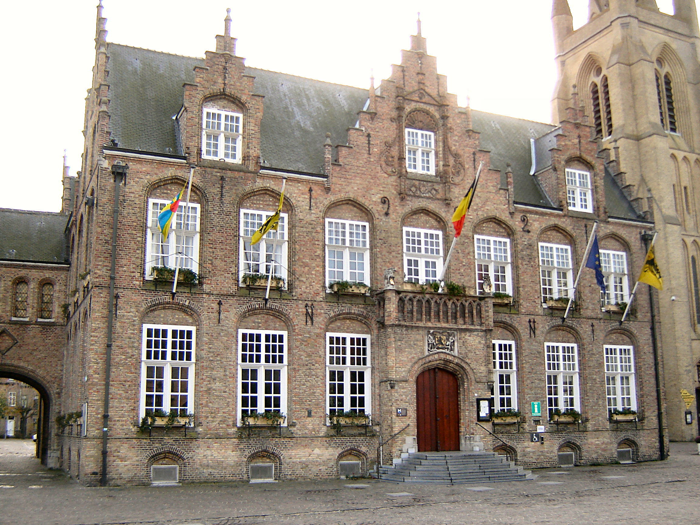 City hall of Nieuwpoort. Nieuwpoort, West Flanders, Belgium